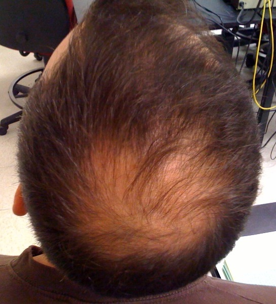 Alopecia